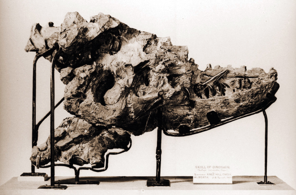 First found Albertosaurus skull, CMN 5600.